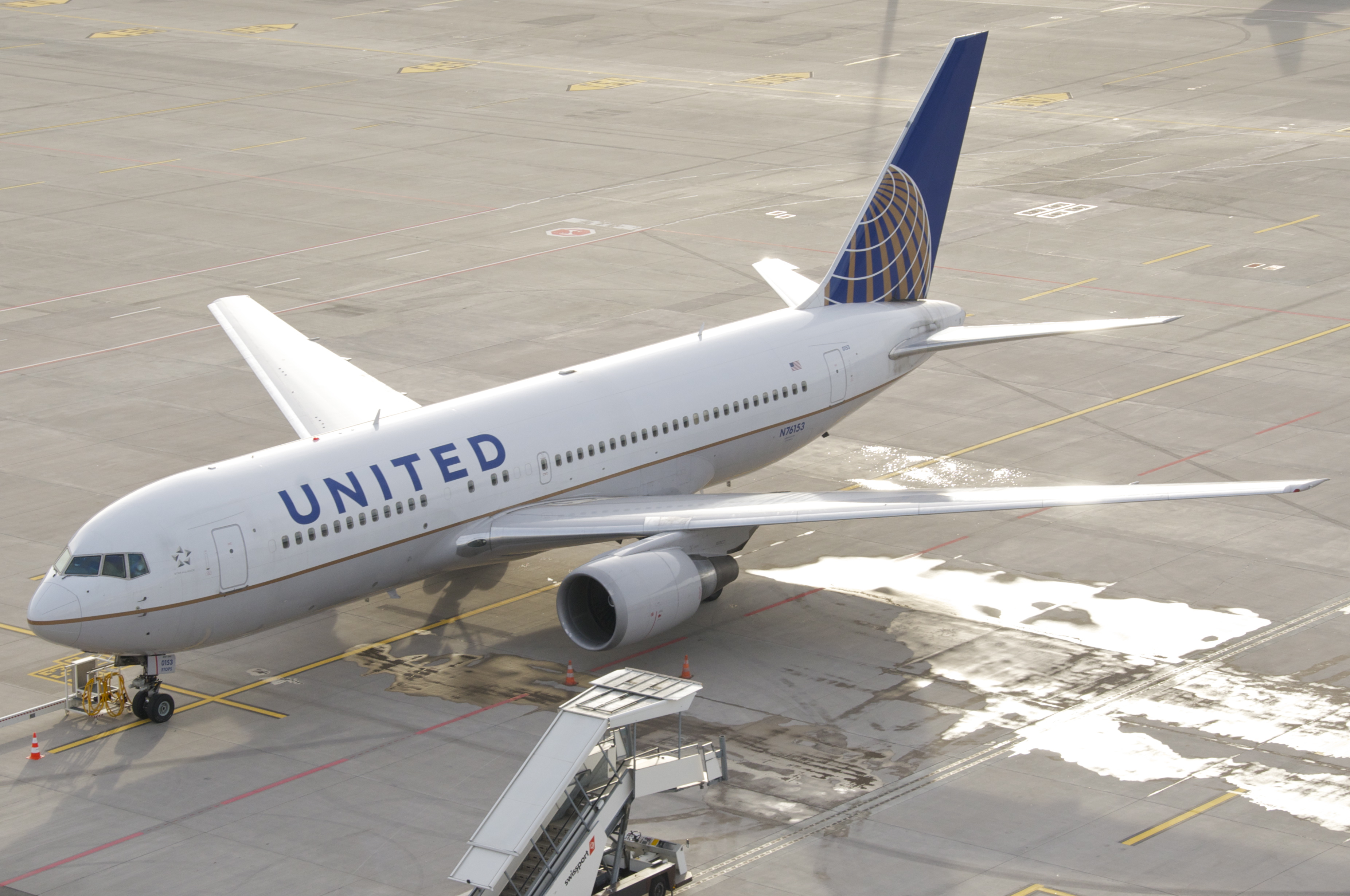 This Boeing 767-224ER took its first flight on December 4, 2000...(c/n 30432/ 819) 13/12/2000 Continental Airlines N76153 30/11/2011 United Airlines N76153